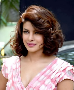 Priyanka Chopra at a promotional event for Dil Dhadakne Do